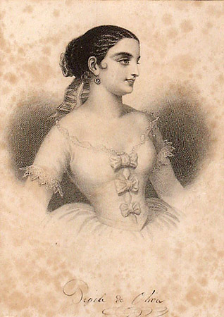 Pepita de Oliva (1830-1871)